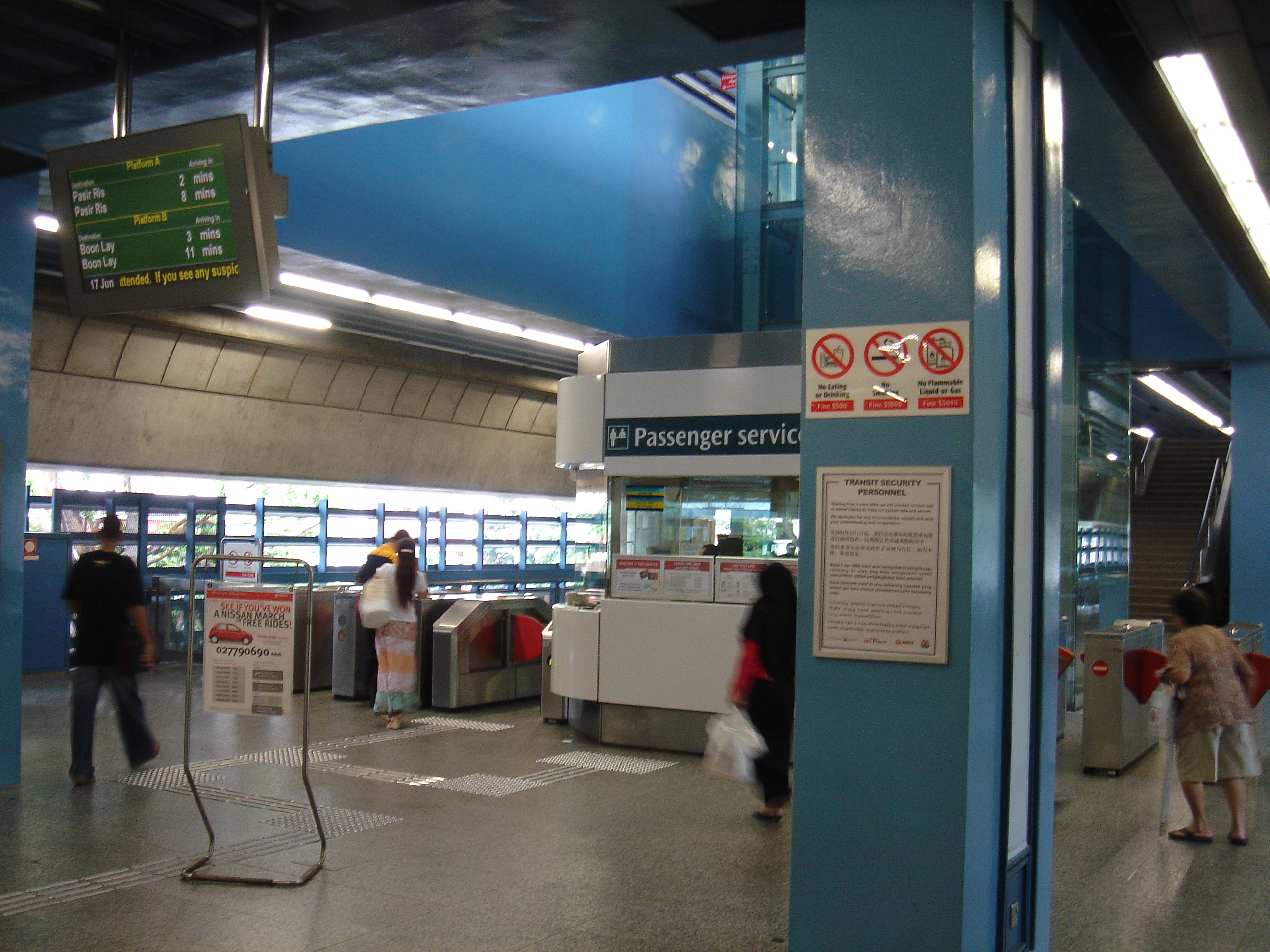 Concourse level, Queenstown MRT Station on the East-West MRT Line.